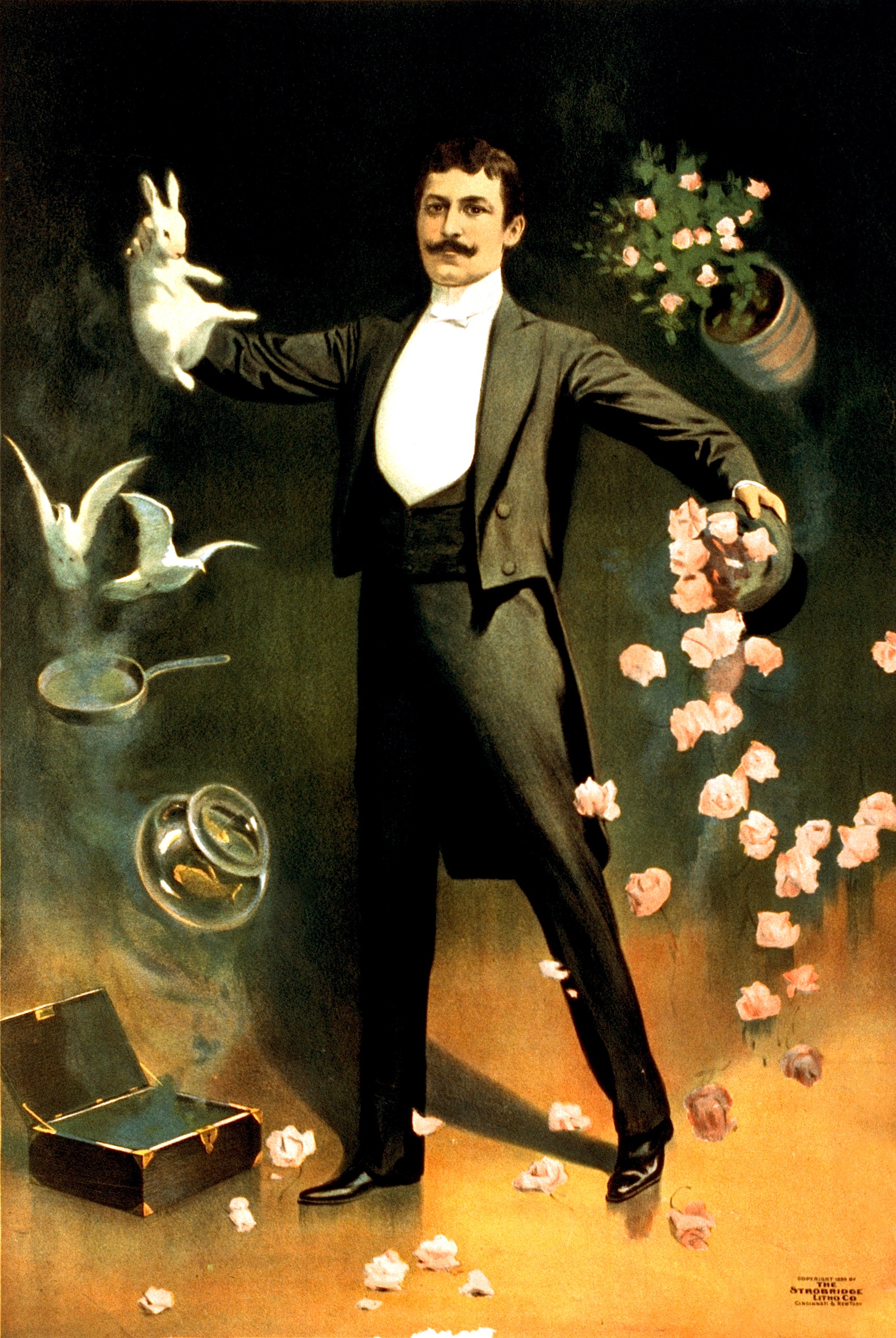 Zan Zig performing with rabbit and roses, including hat trick and levitation. Advertising poster for the magician (who seems to have left no other trace behind)